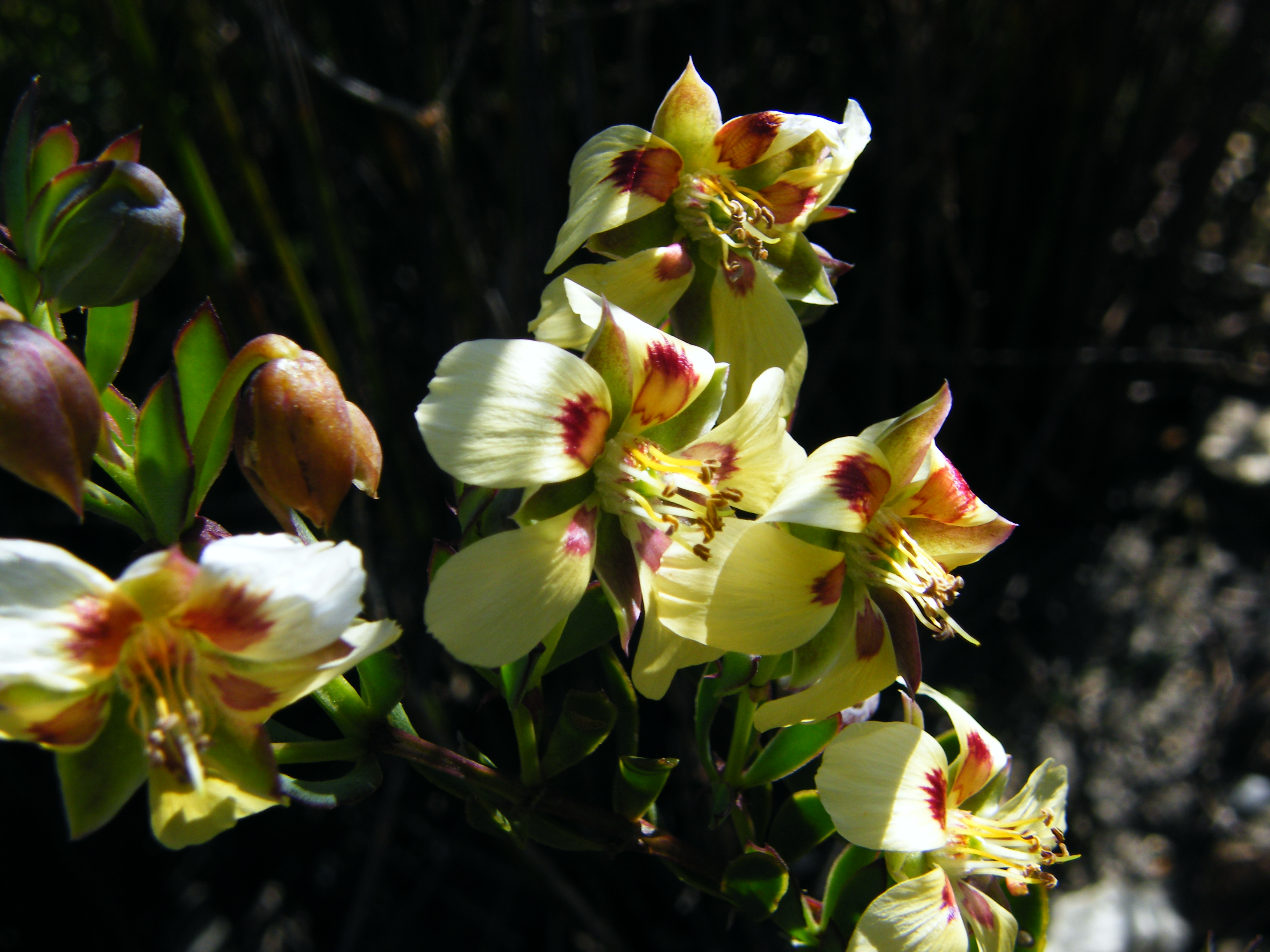 Zygophyllum flexuosum